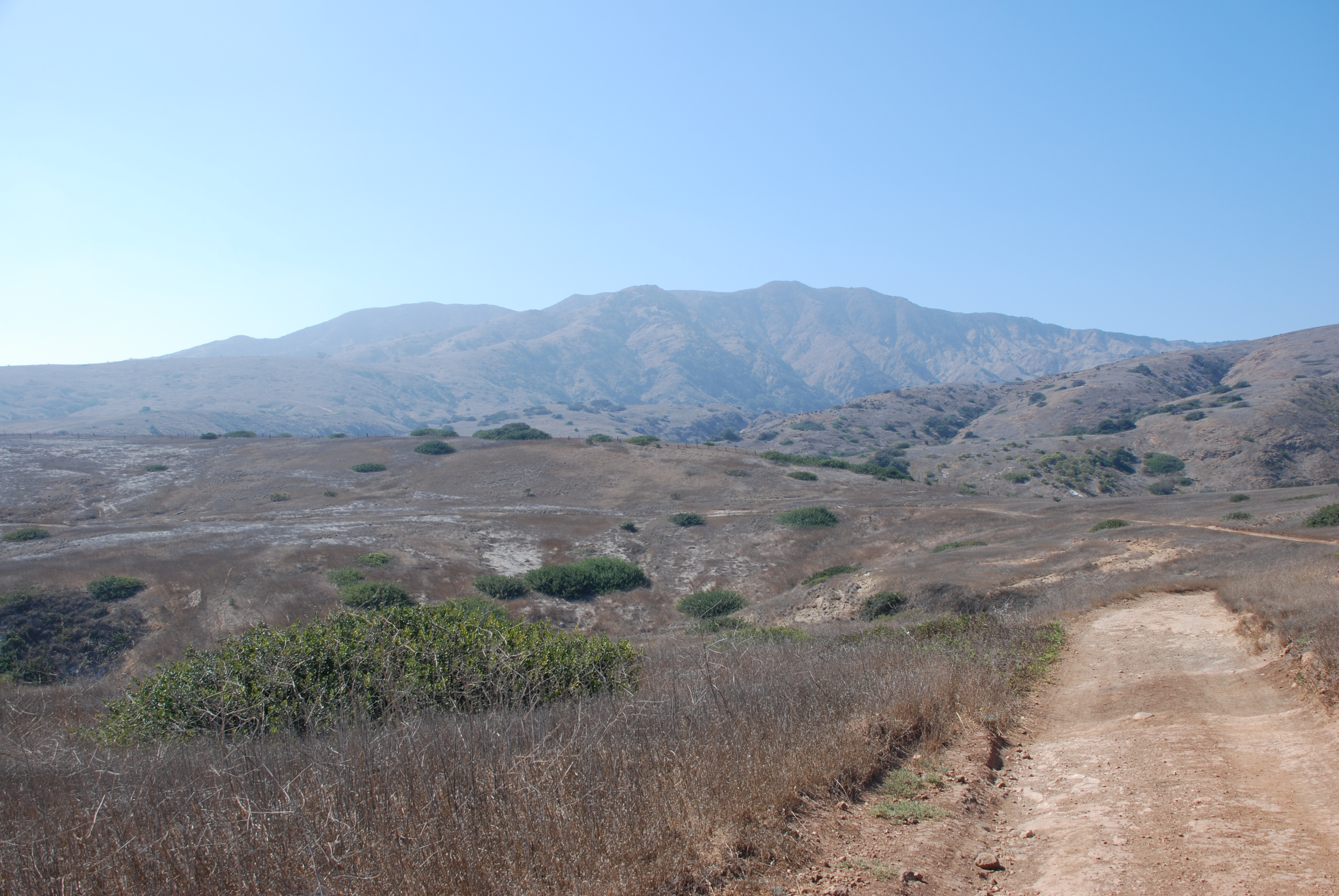 Montañon Ridge, view from Smugglers Road, Santa Cruz Island, California, USA